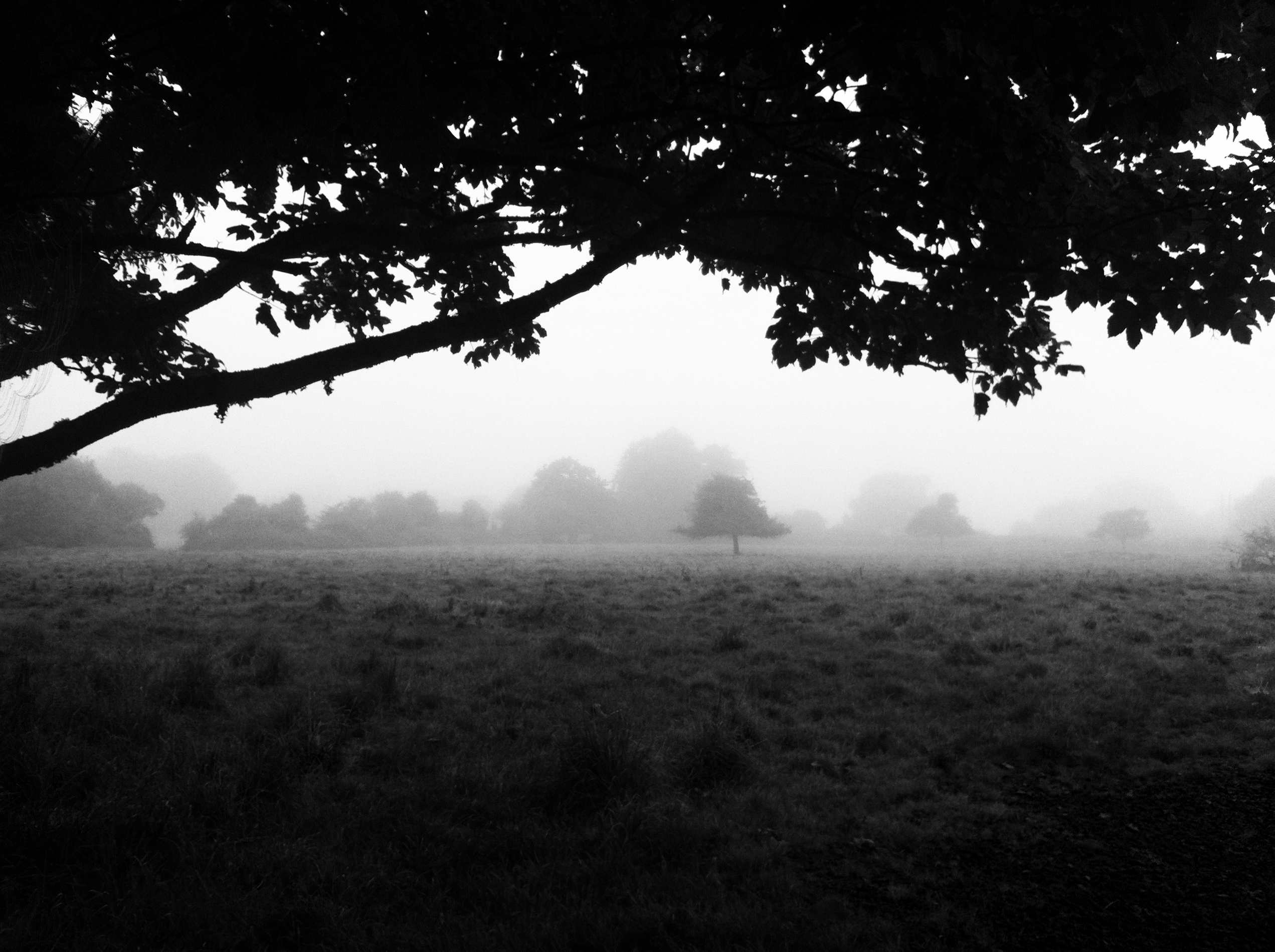 Taken on a foggy morning in france, coigny on an iPhone 4. Black and white. Added on explore #179 August 10th. Thanks for comments and feedback.